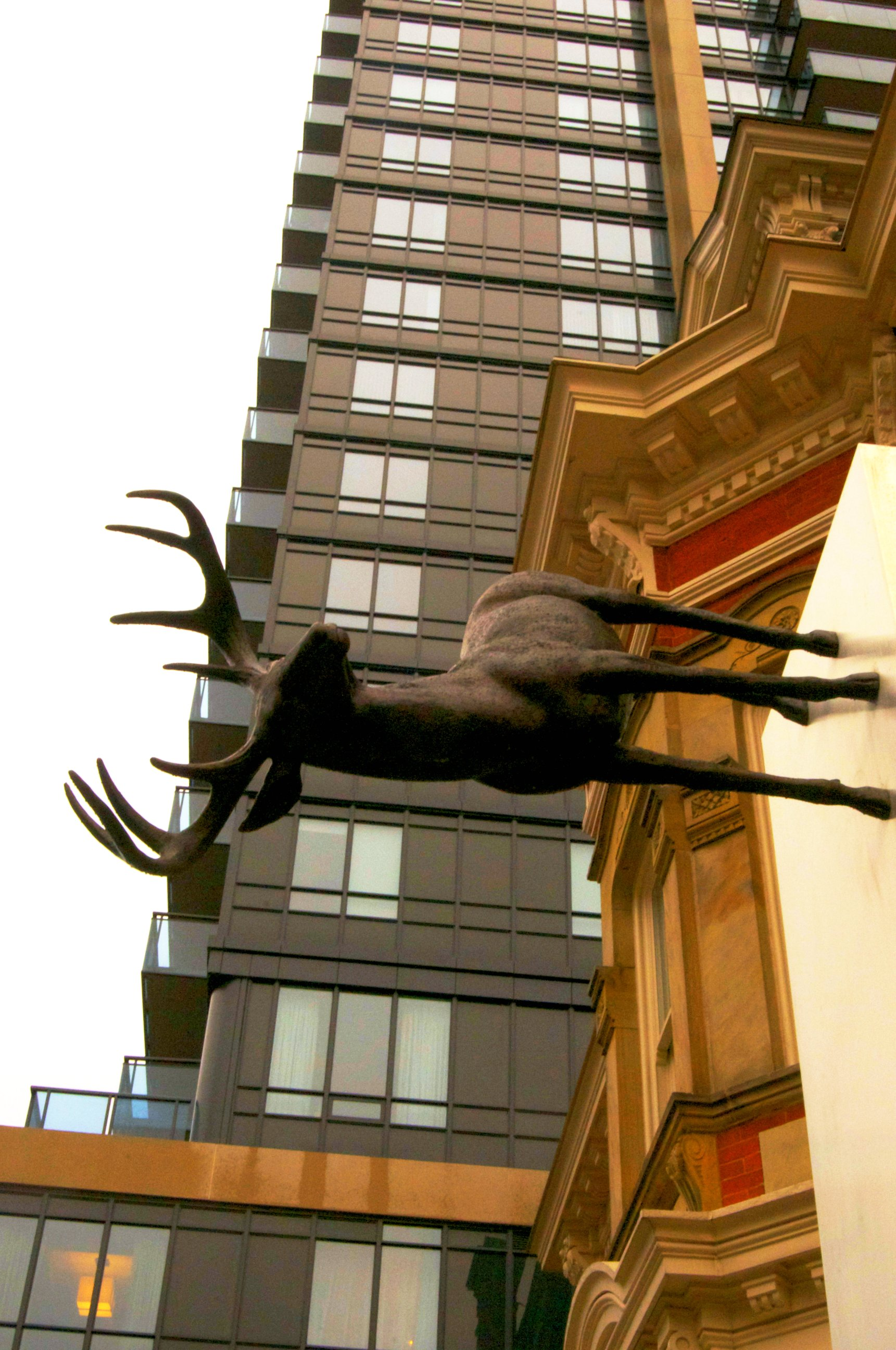 "Inversion" by Eldon Garnet (2010). Toronto, Ontario, Canada.